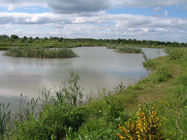 Poppleton Lakes, east of Hessay, York